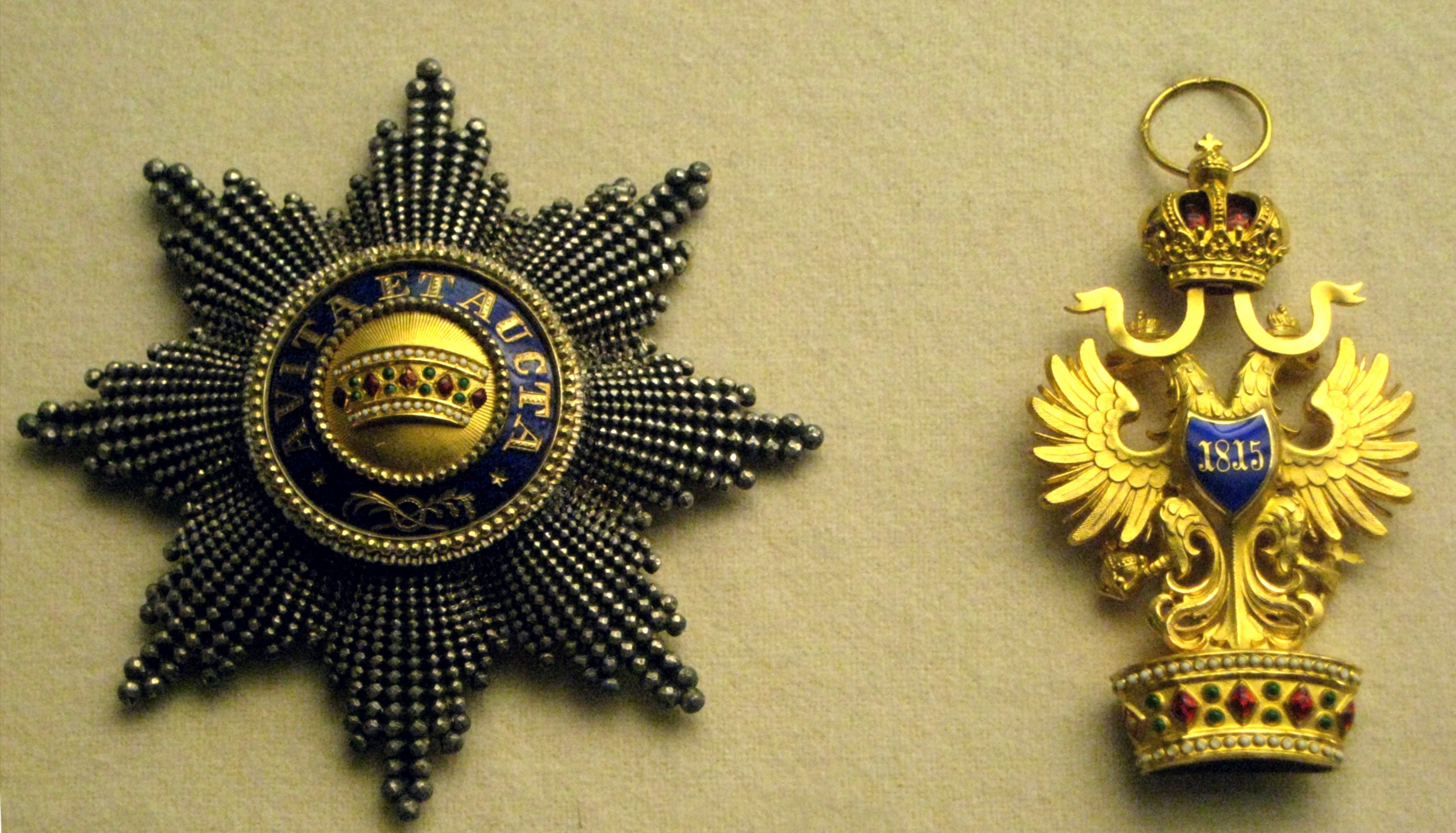 The star and the badge of Order of the Iron Crown. Austro-Hungarian, late 19th c.